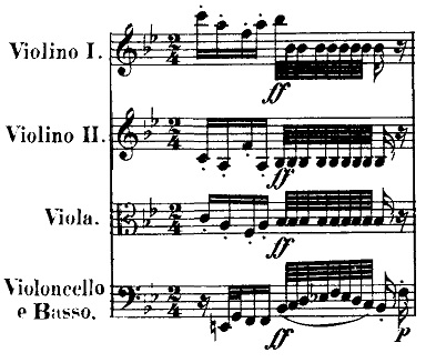 The "broken metronome" part in the string section, from the 2nd movement of Beethoven's Symphony No. 8 in F.